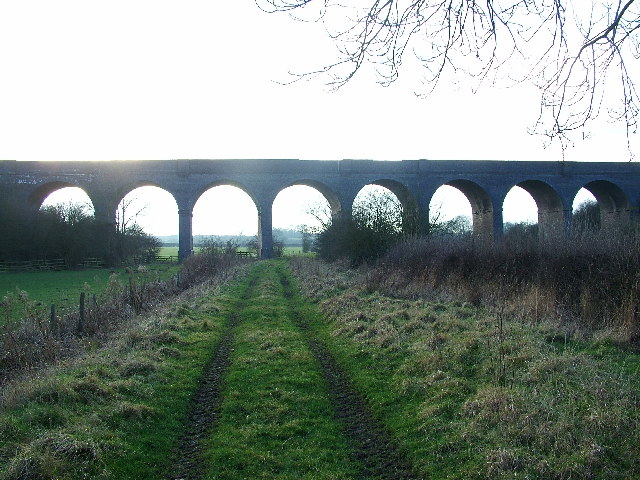 Helmdon Viaduct, Northamptonshire, on the disused Great Central Main Line